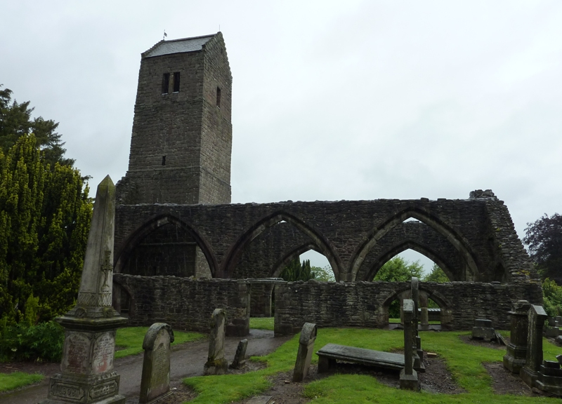 Muthill Old Church, Muthill, Perth and Kinross, Scotland. View from south.